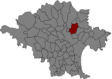 Location of Garriguella in Alt Empordà